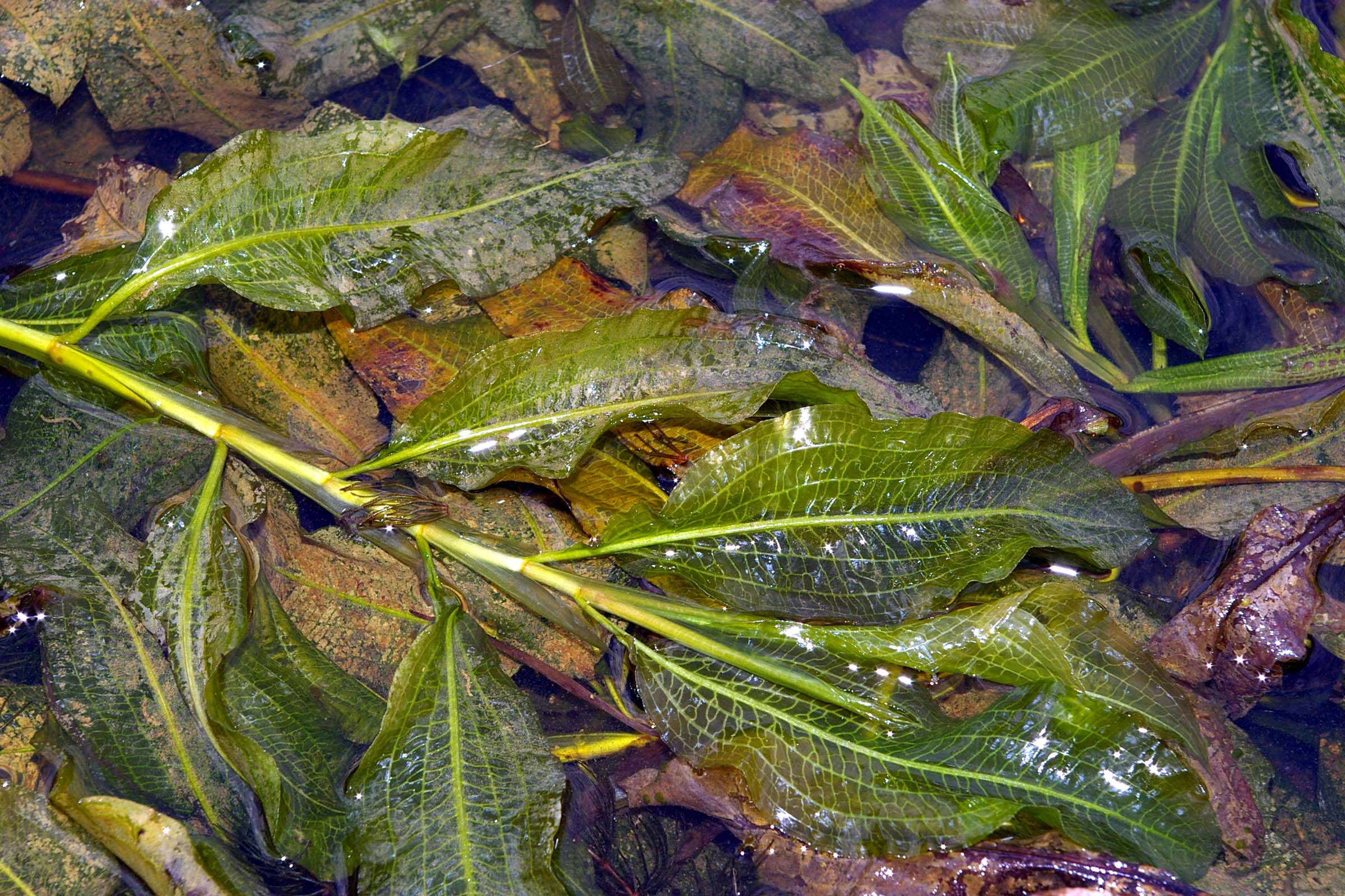 Leaves of the pondweed Potamogeton lucens (Potamogetonaceae).